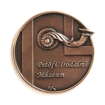 Fáma prize, cast, bronze, 100mm